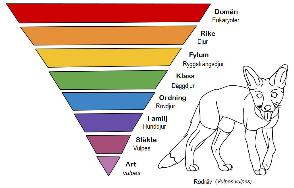 A translation to Swedish language of the different taxonomic levels